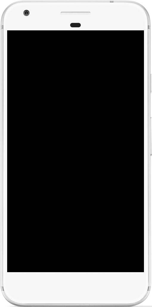 Mock of 1st generation Google Pixel in silver that was released on October 20th